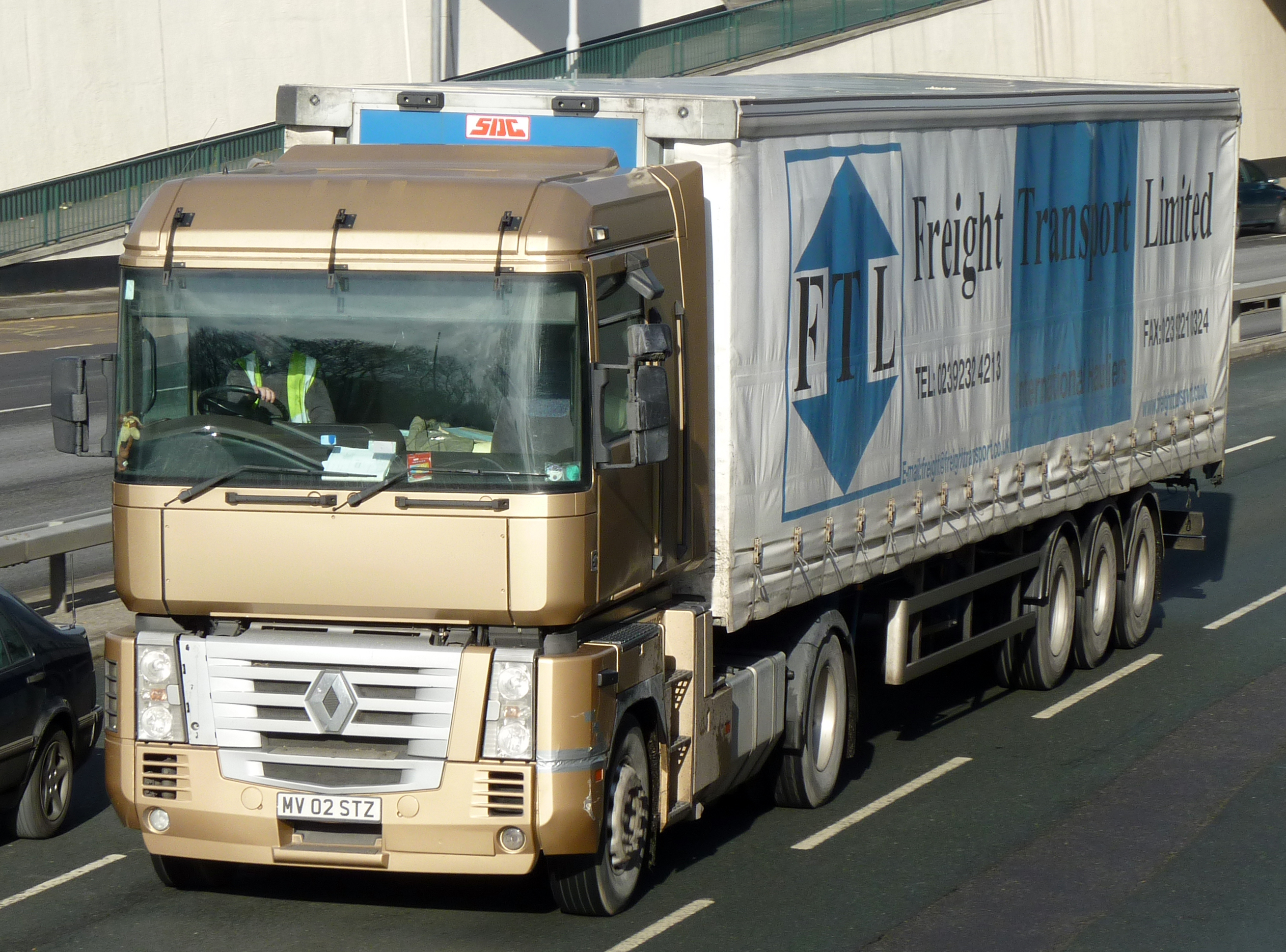 1 February 2010 Crownhill Plymouth